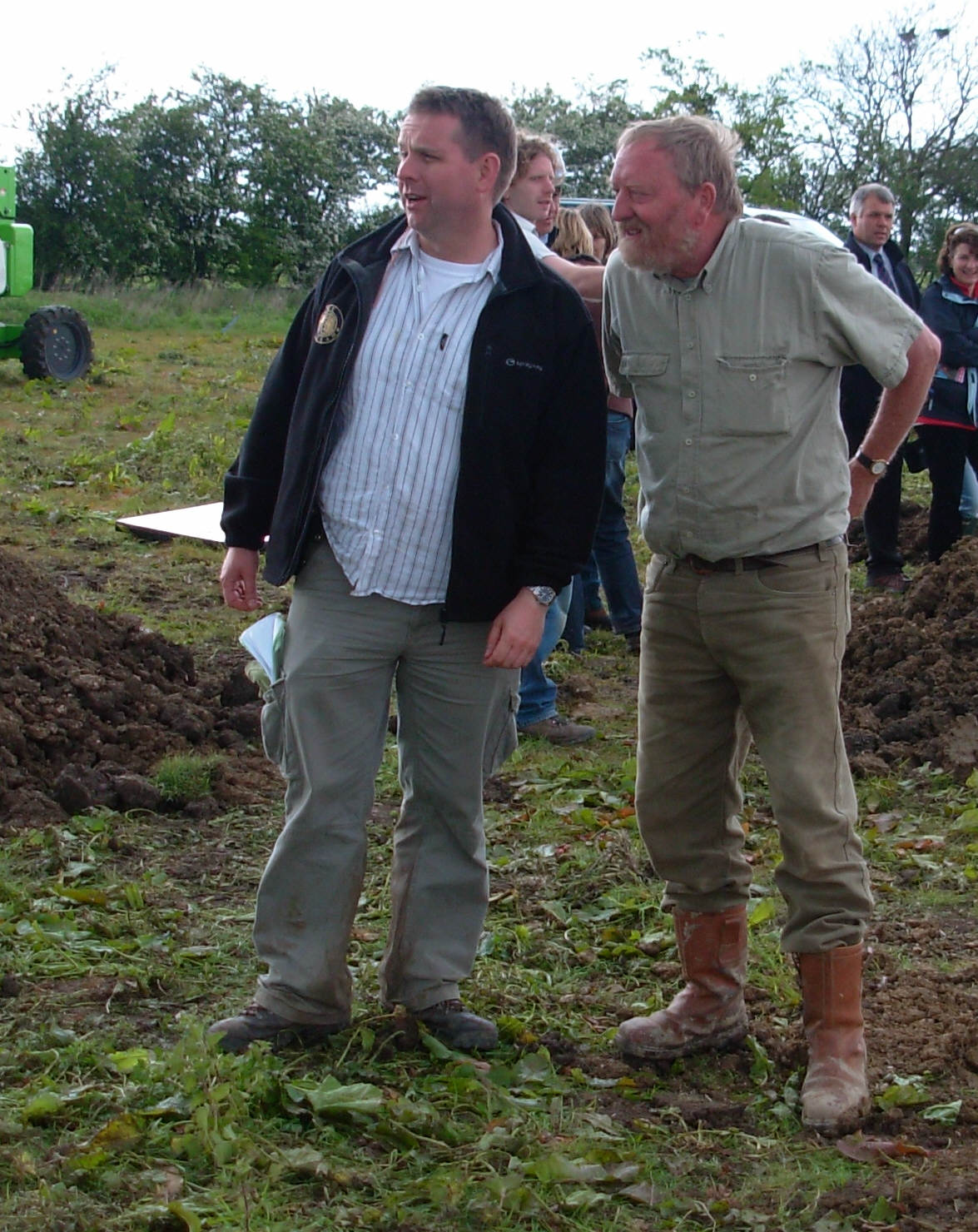 Author: G de la Bedoyere